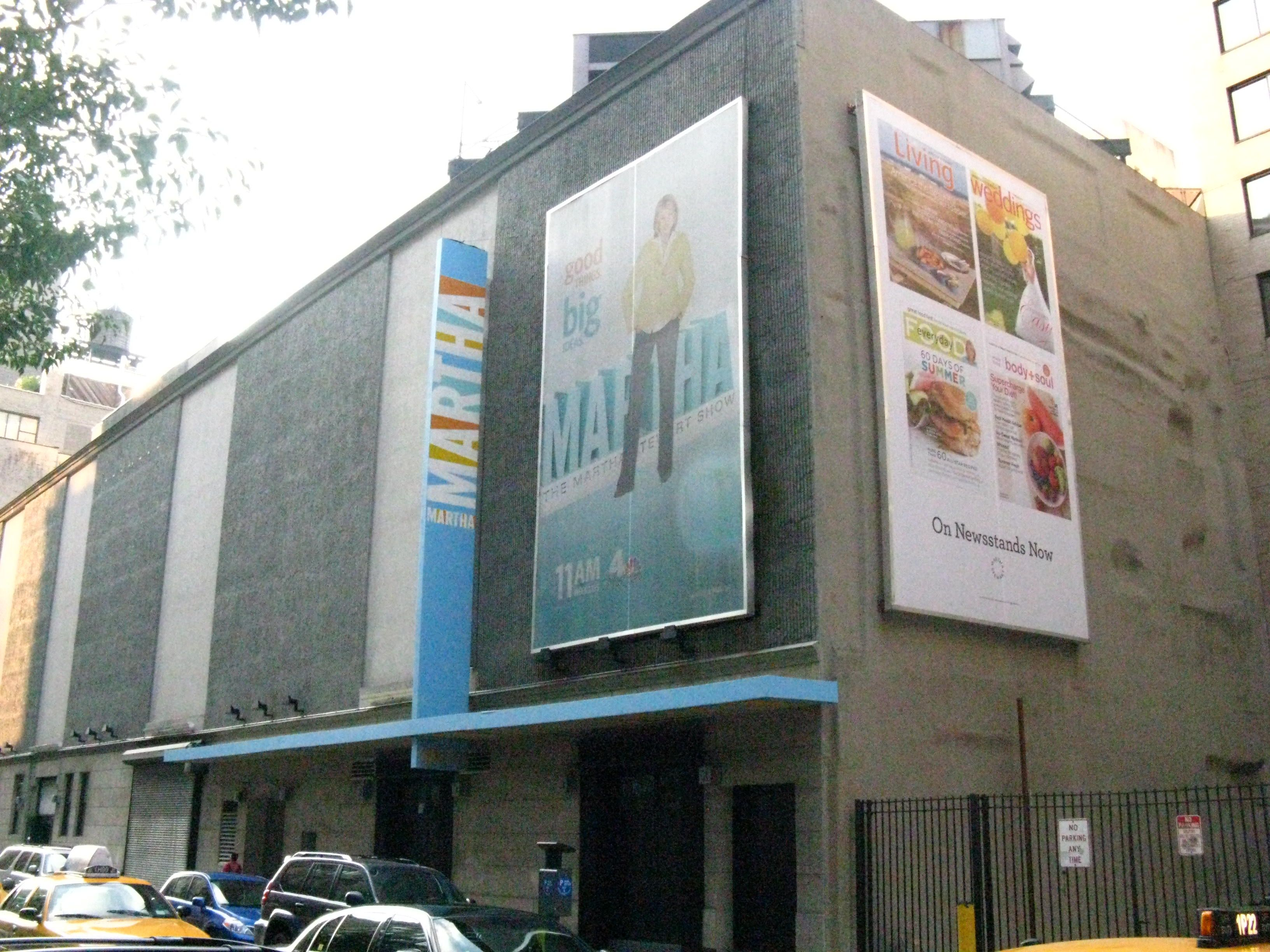 Chelsea Studios in New York City. Formerly the location of the Famous Players movie studio.